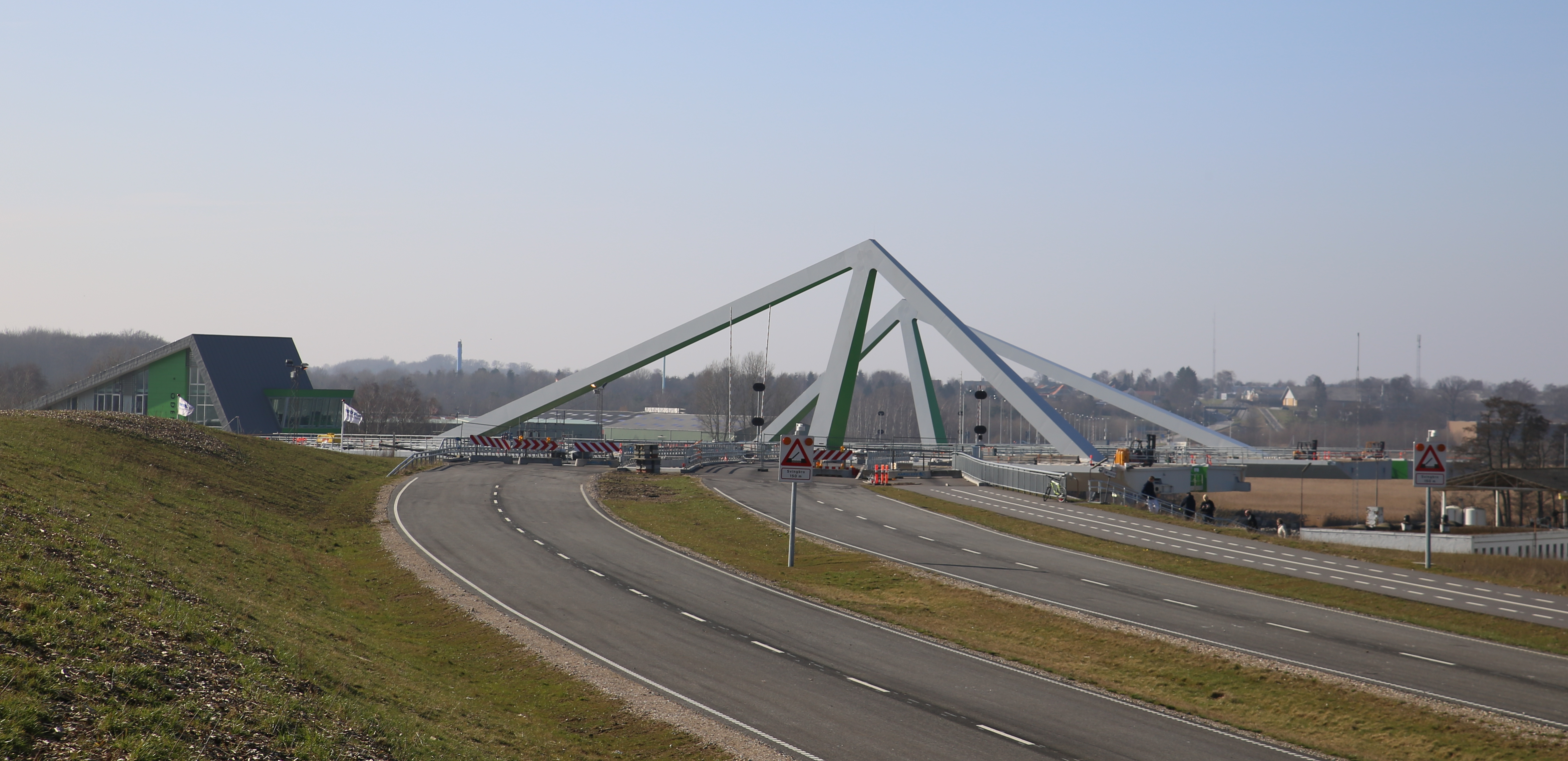 Odins Bro under construction in Odense, Denmark